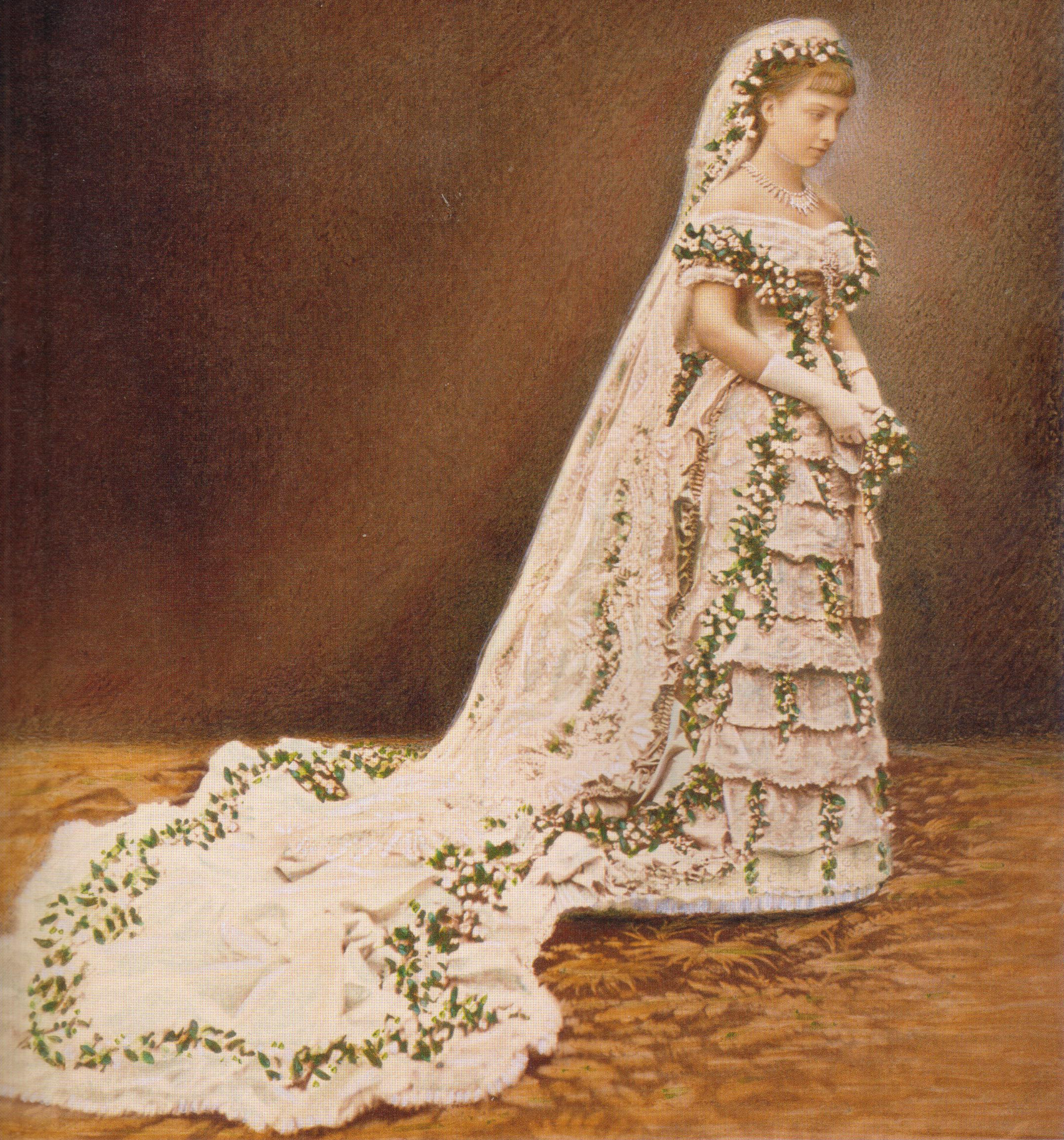 Photo of victoria of baden as a bride